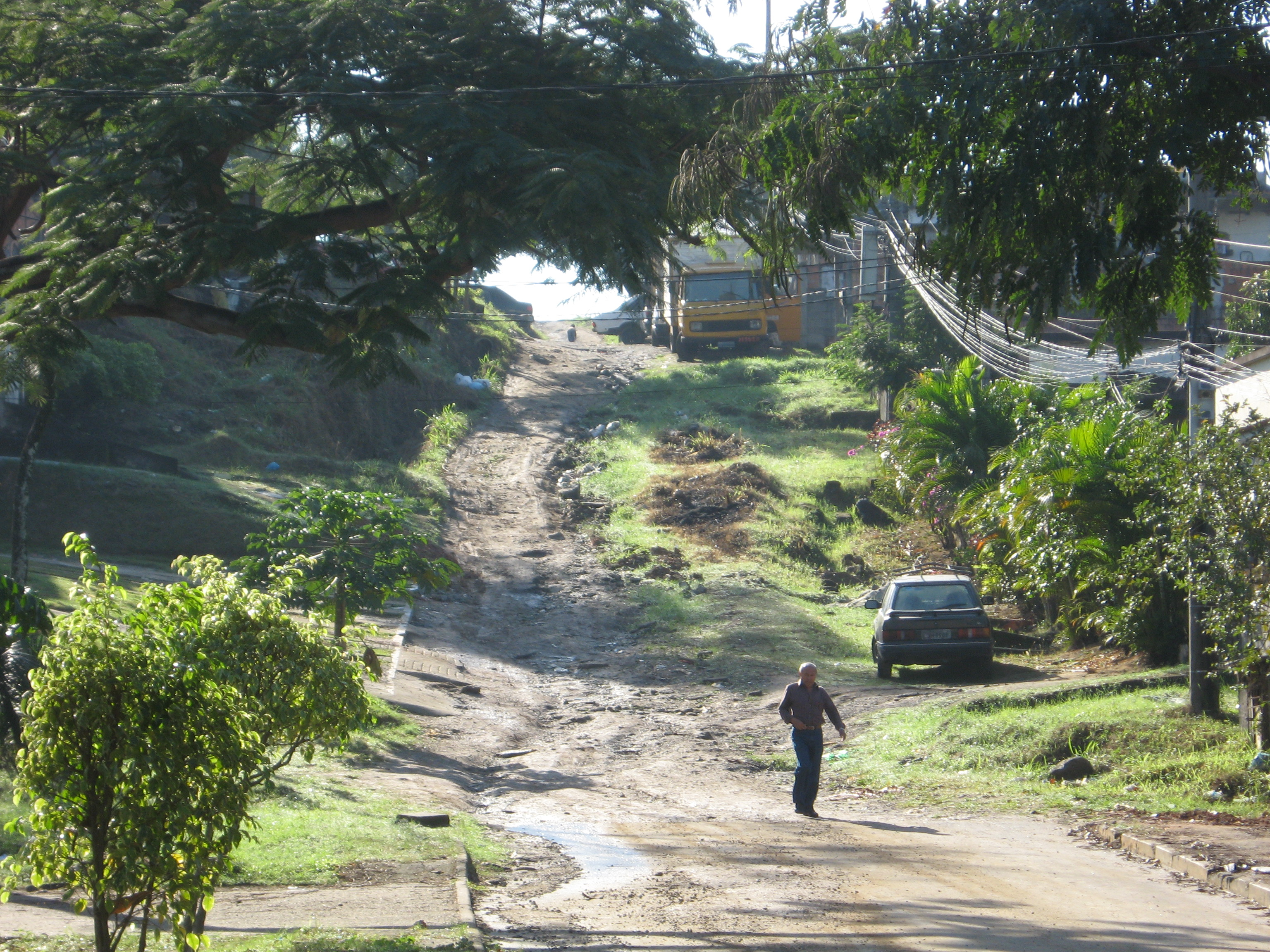 A street of Mesquita, Rio de Janeiro, Brazil